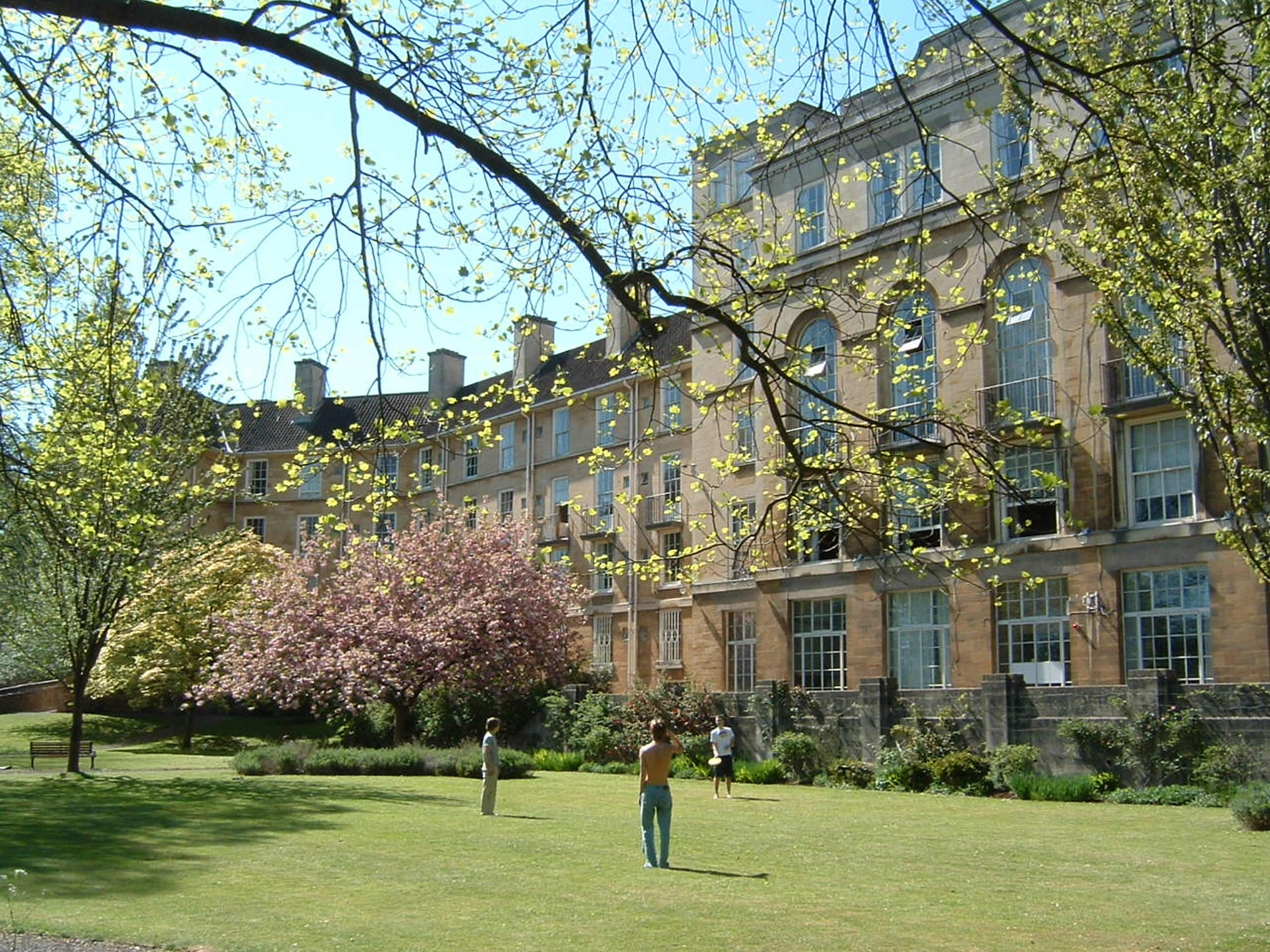 Manor Hall viewed from the front showing some of the hall's gardens